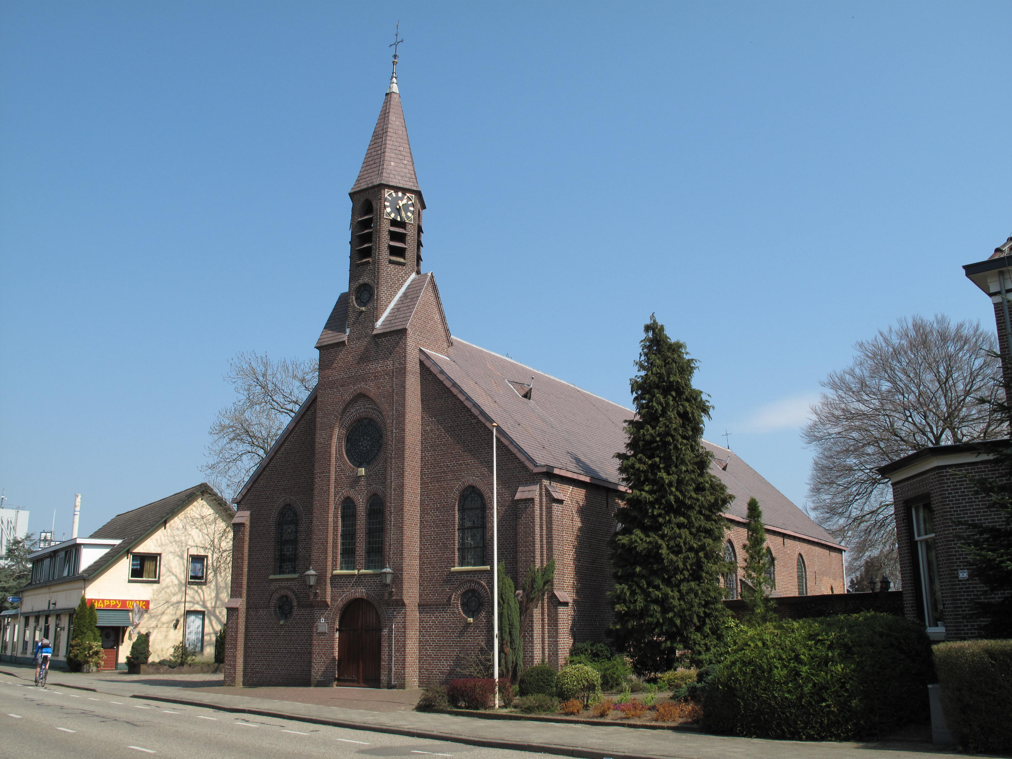 Wijnbergen, church: Sint Martinuskerk